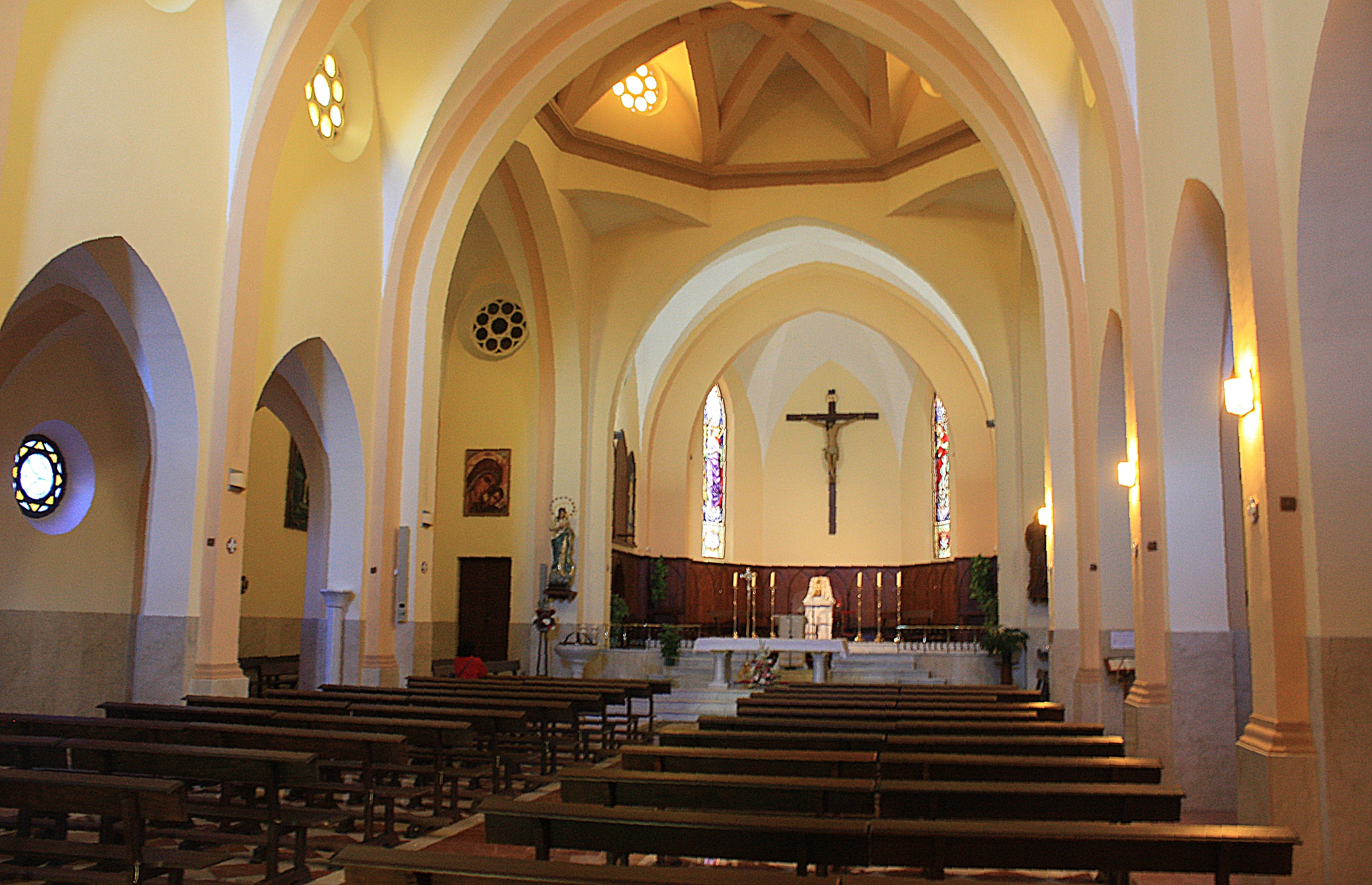 Málaga, the church "San Patricio", inner view